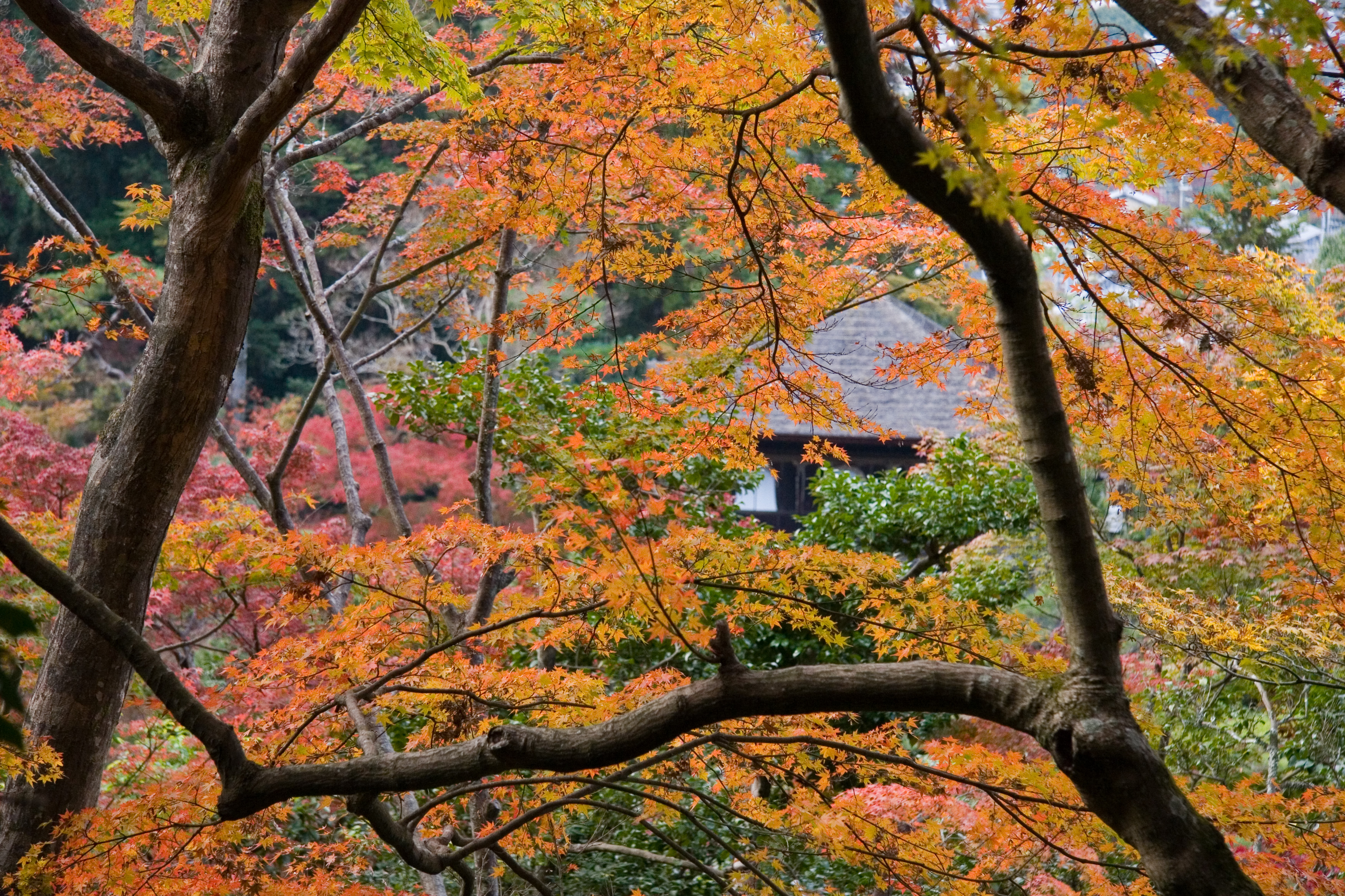 Momiji (Japanese maple trees) in Ginkaku-ji, Kyoto